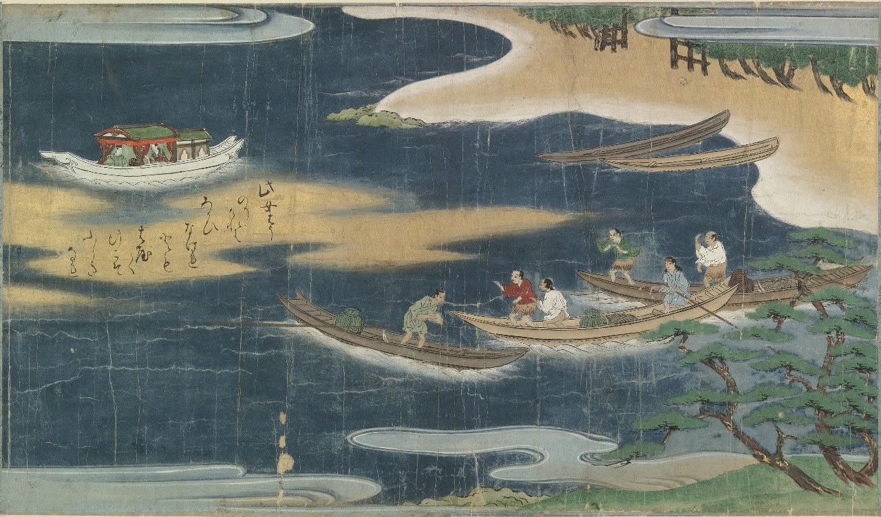 Urashima the fisherman in his boat, saving a turtle's life and returning it to the water. Japanese handscroll or emakimono of a Japanese folk tale of the fisherman Urashima Taro, having saved a turtle’s life, transported to Horai, a Turtle palace as the guest of Princess Otohime. On his return he finds that many years have passed in his home village. Opening a magic box given to him by Otohime, he ages. Written in Japan, late 16th or early 17th century. Shelfmark: MS. Jap. c.4(R)